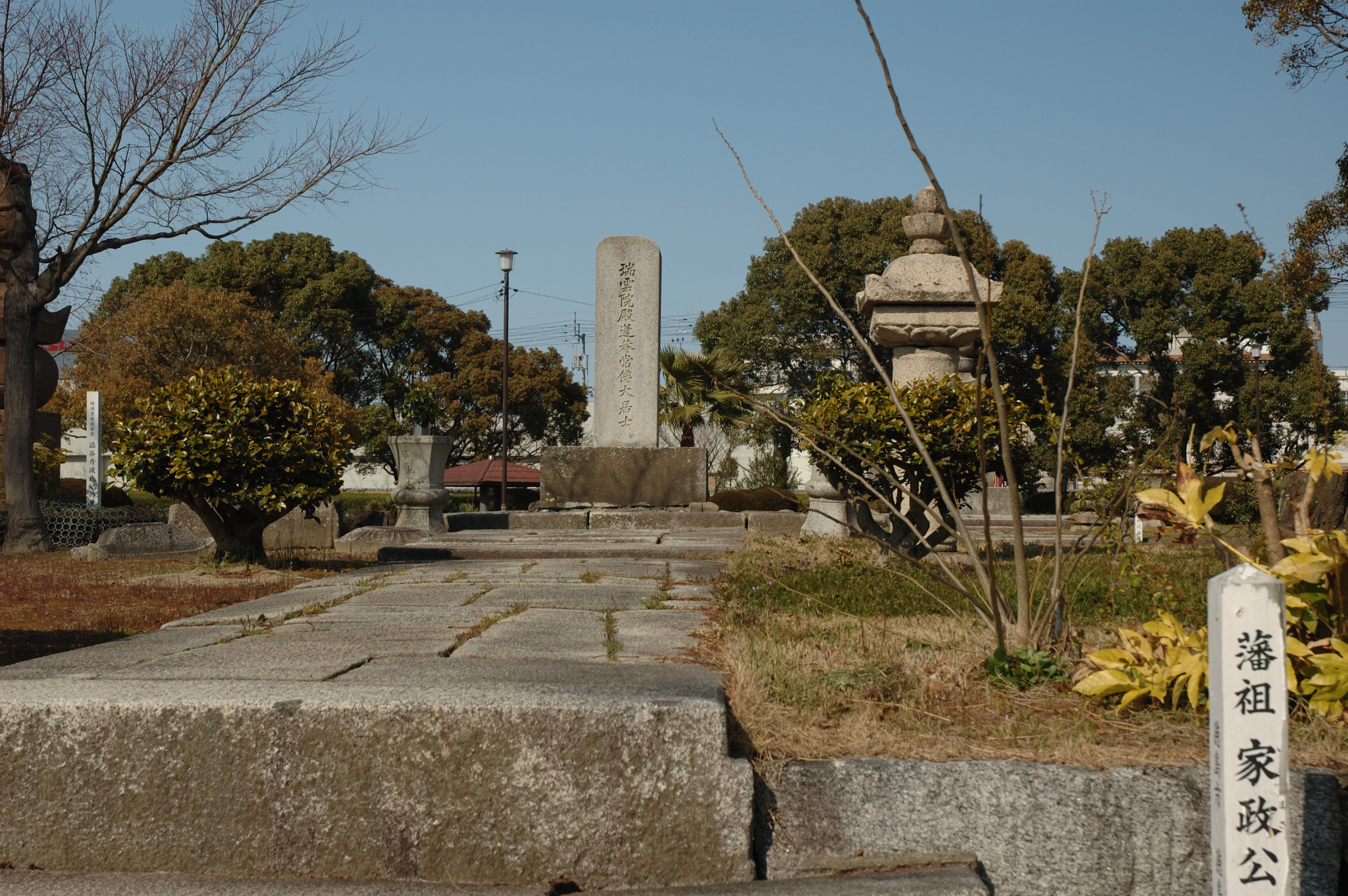 grave of Hachisuka Iemasa(the ancestor of a lord)